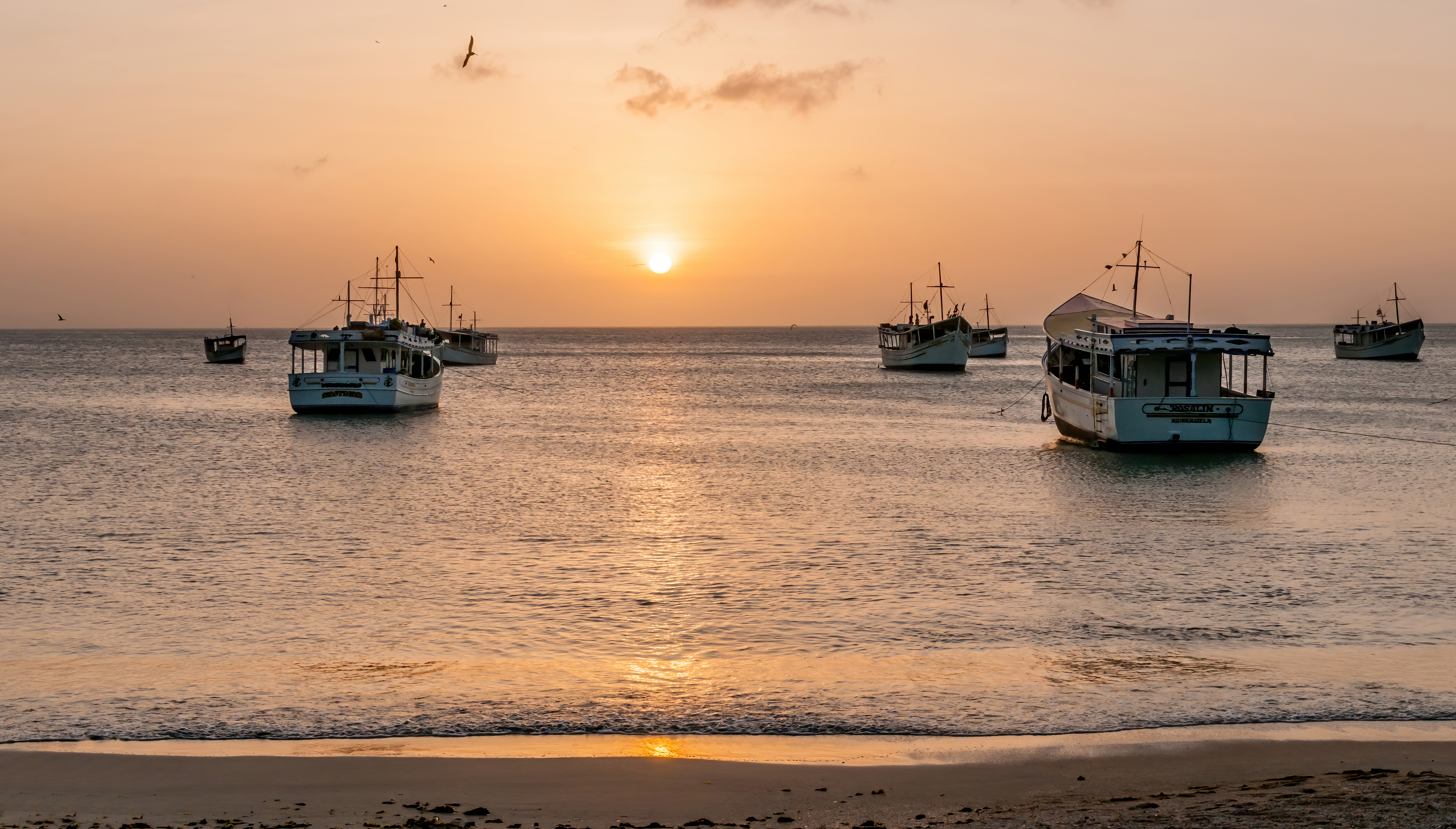 Sunset over the bay of Juan Griego, Margarita Island, Venezuela